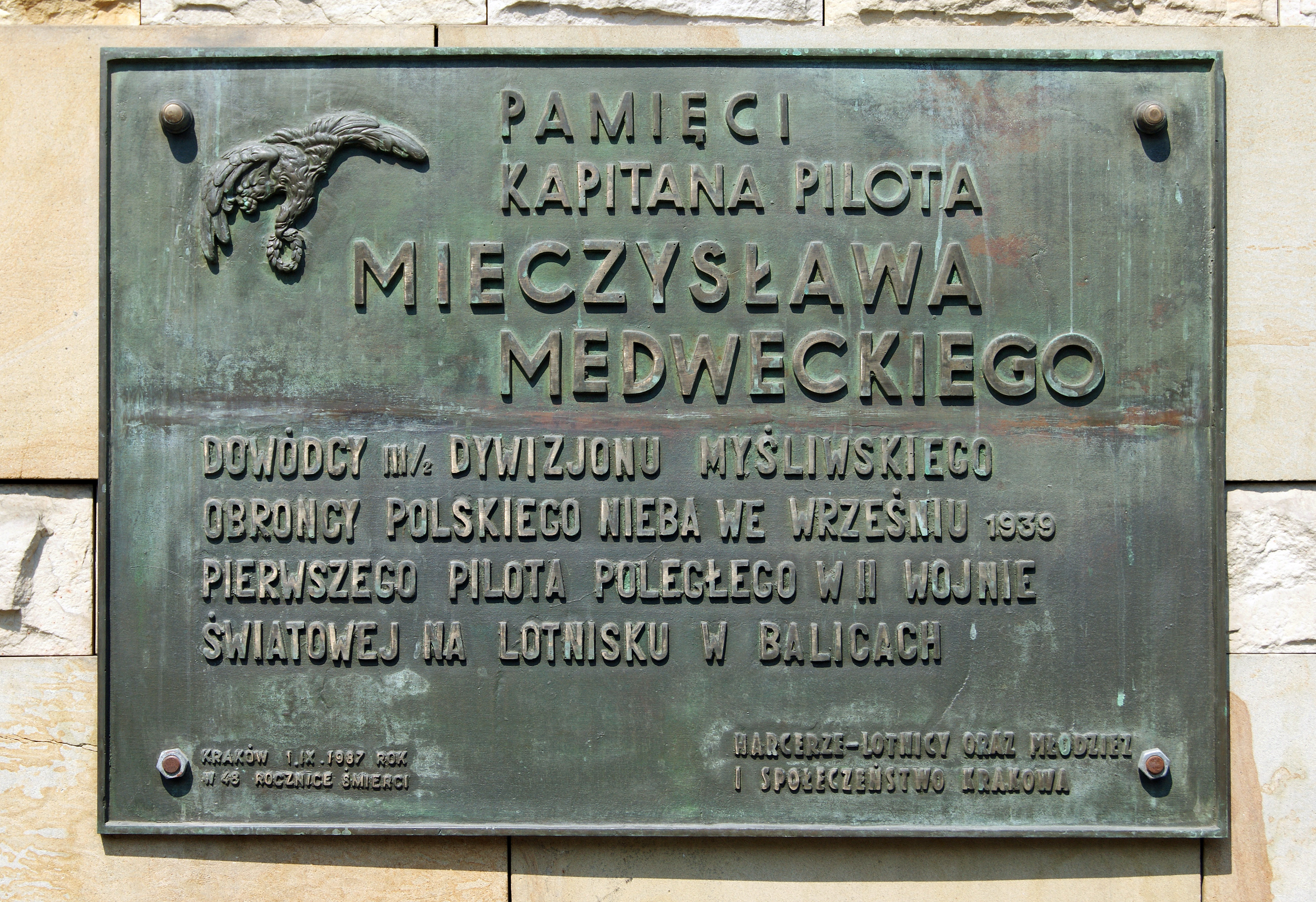 II WW, Gp Capt Mieczyslaw Medwecki commemorative plaque, International Airport Kraków-Balice, Balice village, Krakow County, Lesser Poland Voivodeship, Poland